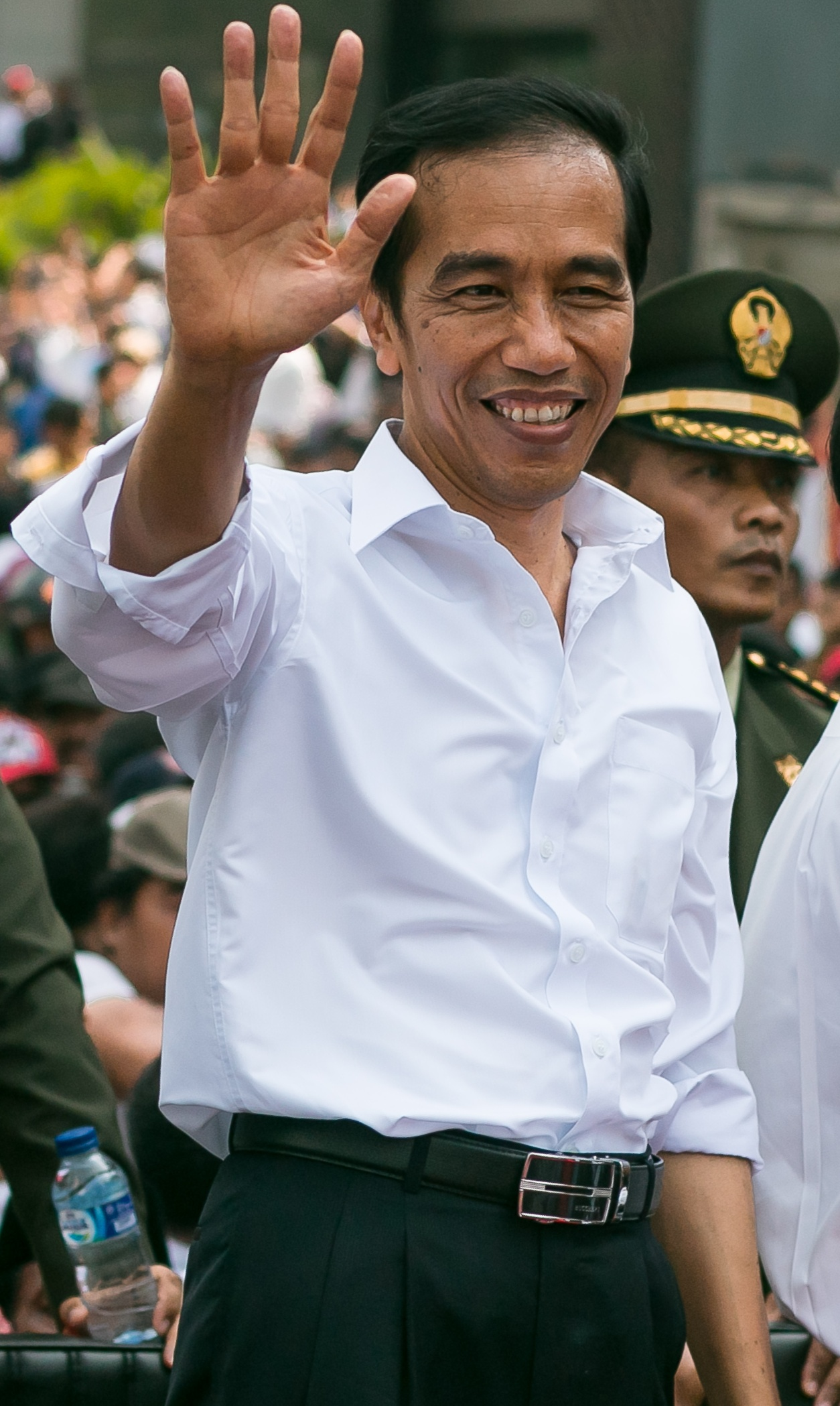 Crop from File:New president.jpg